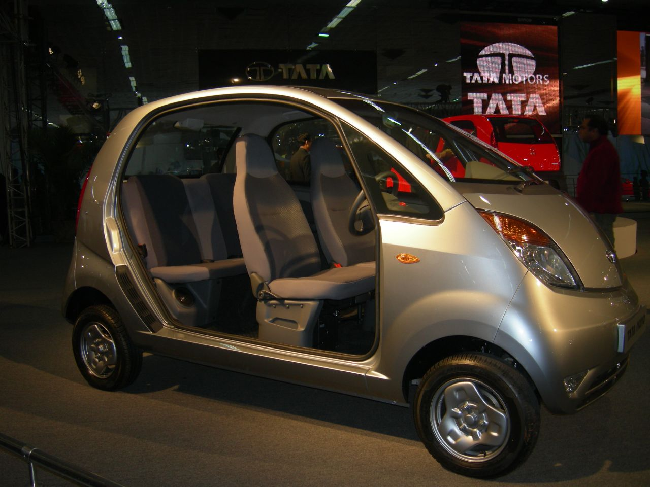 Tata Nano by DjohEnInde Uploaded to wiki by user:Navan